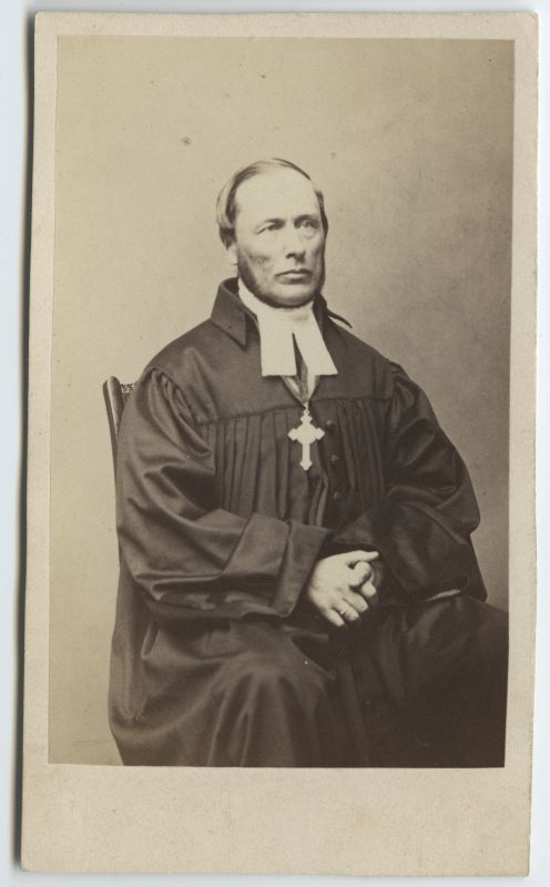 Estonian cleric